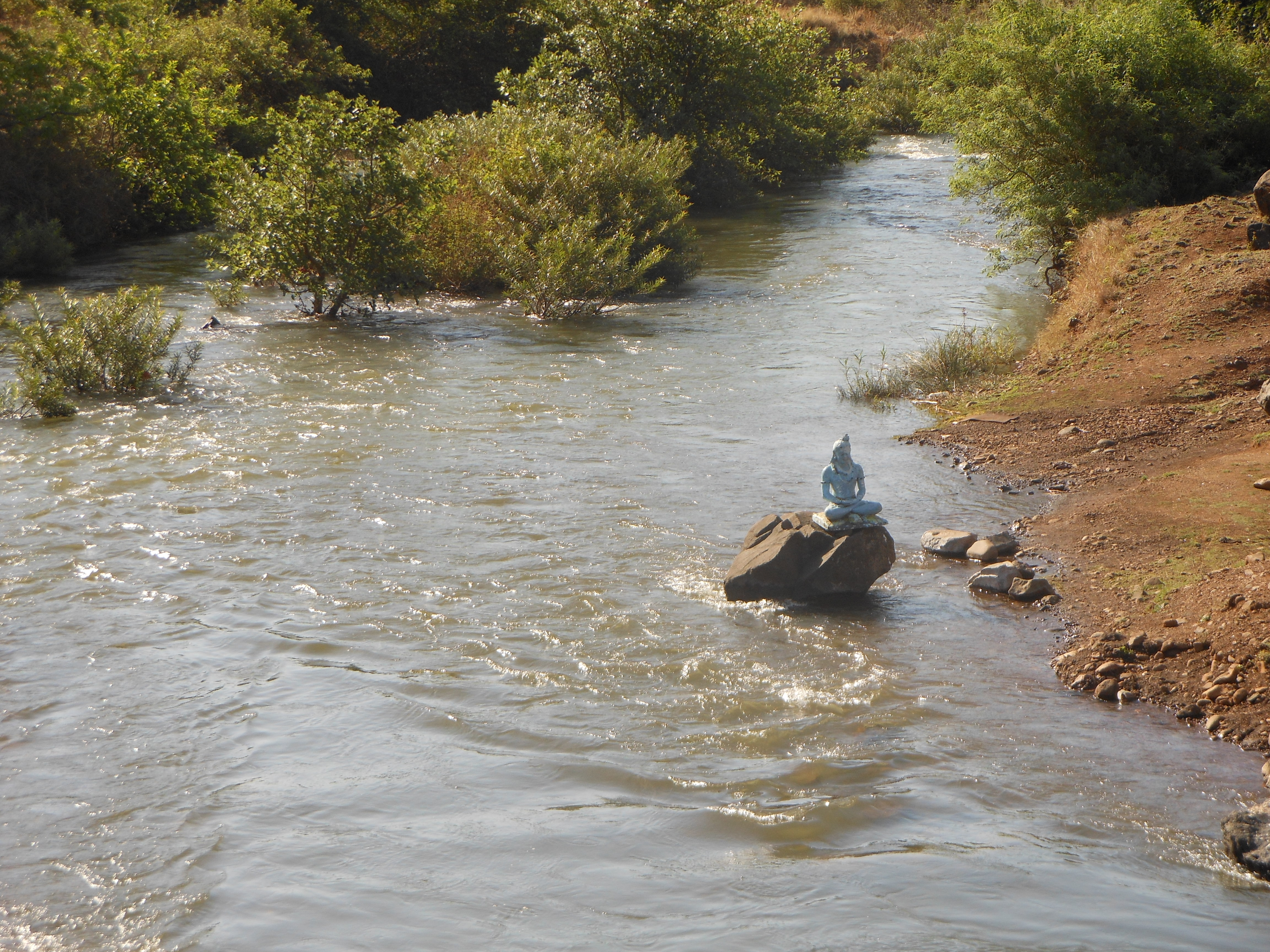 Just after Temghar Dam, there is Lavharde Village and this is Mutha River